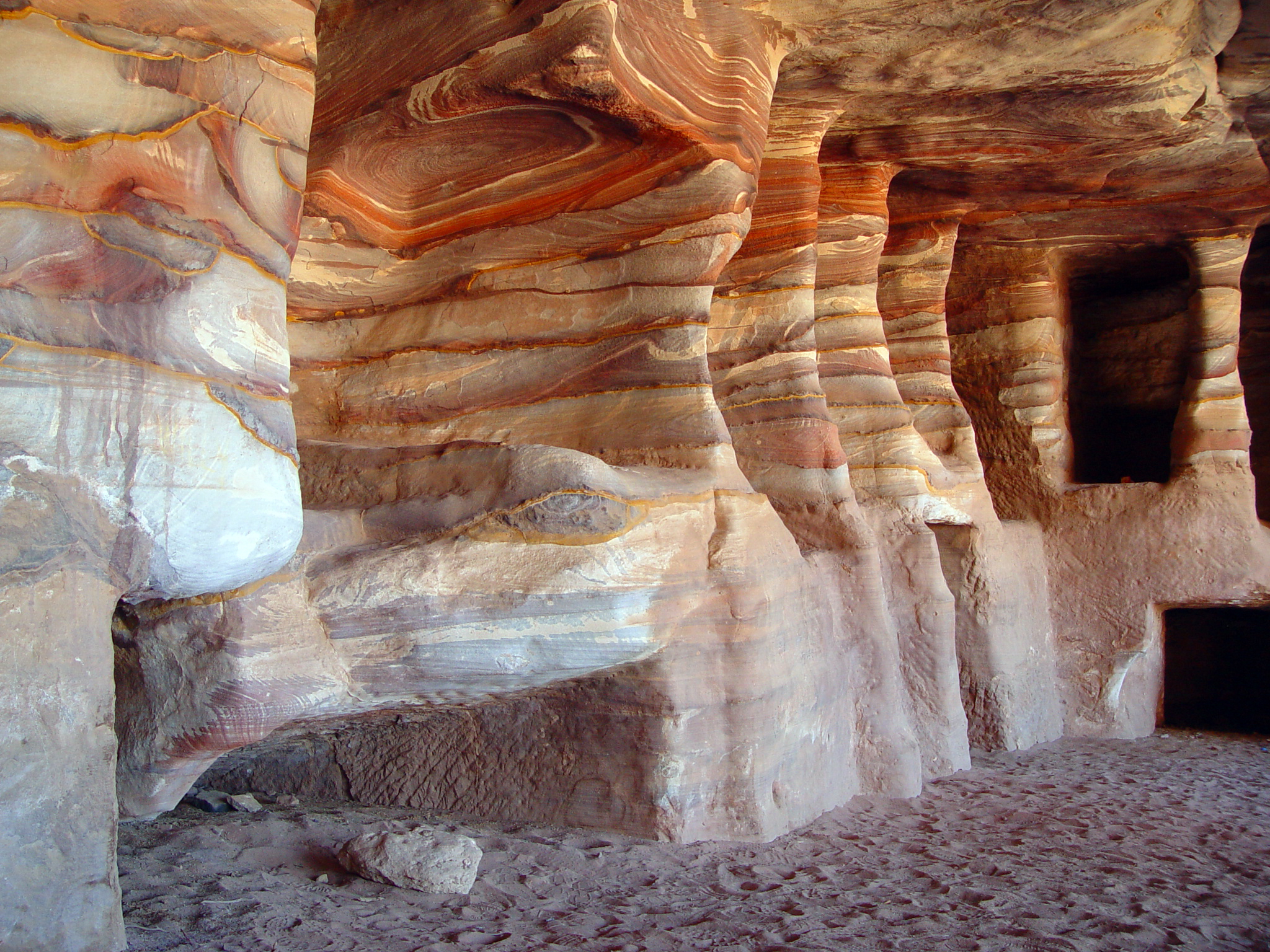 Sandstone Rock-cut tombs (Kokh) in Petra (Jordan)